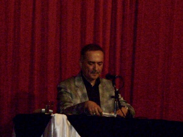 Turkish writer Murathan Mungan in reading his book "Kadından Kentler" in Diyarbakir, Turkey. (2008)